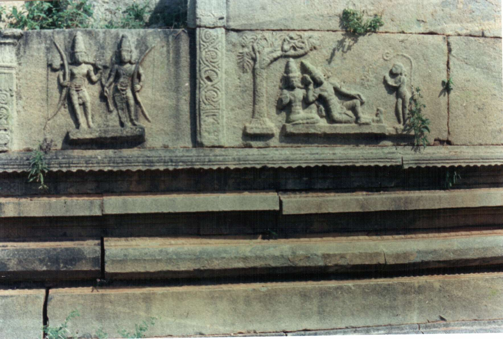 Chennakesava temple,Sadali,Kolar District,Karnataka State,India Taken in 1995 Summary Chennakesava temple,Sadali,Kolar District,Karnataka State,India Taken in 1995